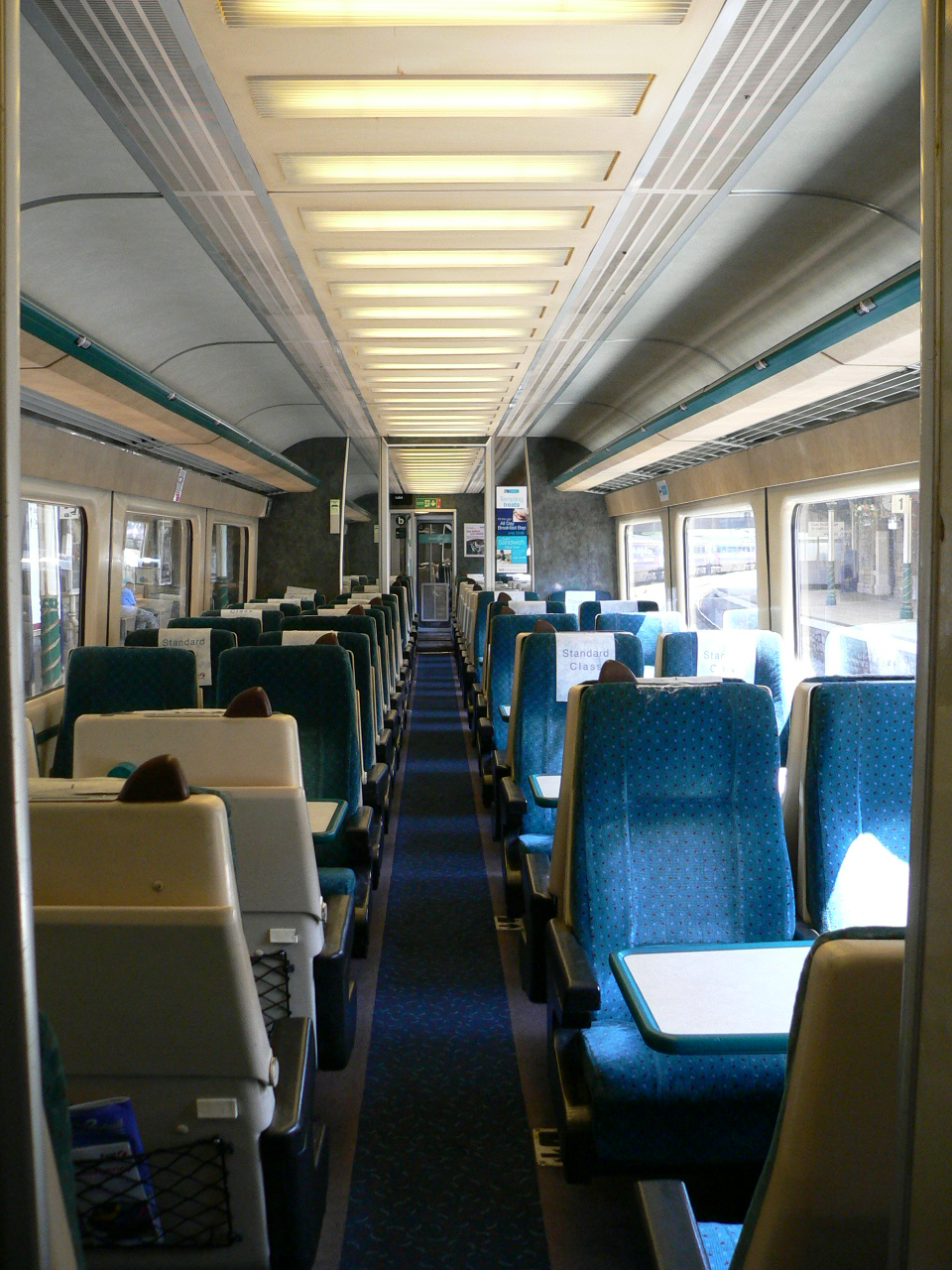 Coach B, a standard class carriage on a First Great Western HST.